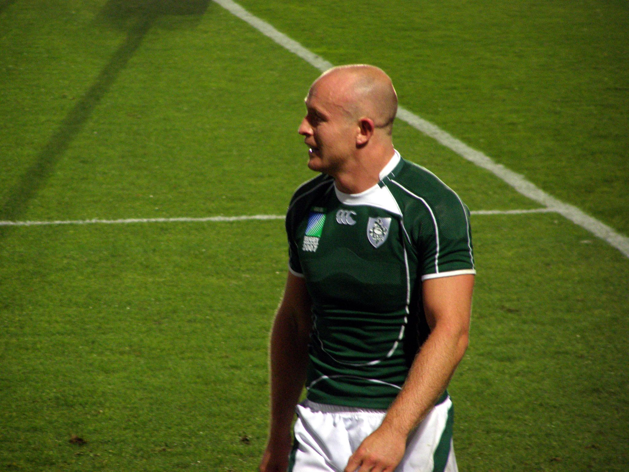 Ireland vs Georgia, Rugby World Cup 2007. Stade Chaban Delmas, Bordeaux, France. The winger Denis Hickie